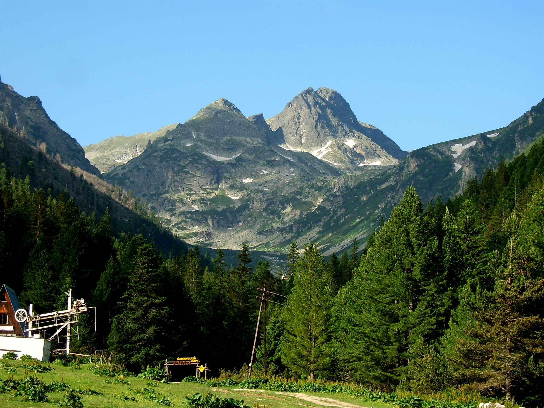 Summit Maliovitsa (Malyovitsa; elev. 2,729m), Rila mountain, Bulgaria. Photo taken from 42°12′31″N 23°23′17″E / 42.20861°N 23.38806°E, 2720m altitude (identified from Google Earth and Rila National Park map). Trees on right are mostly Pinus peuce.